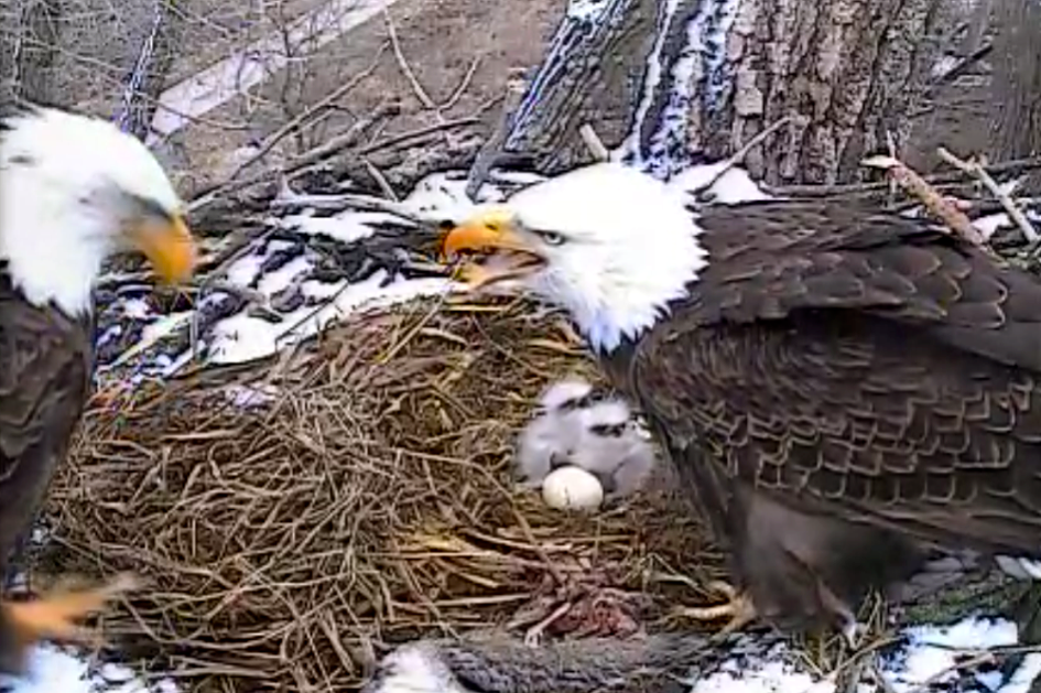 Screen grab from Ustream.tv shows second eaglet born to the Decorah couple in 2014